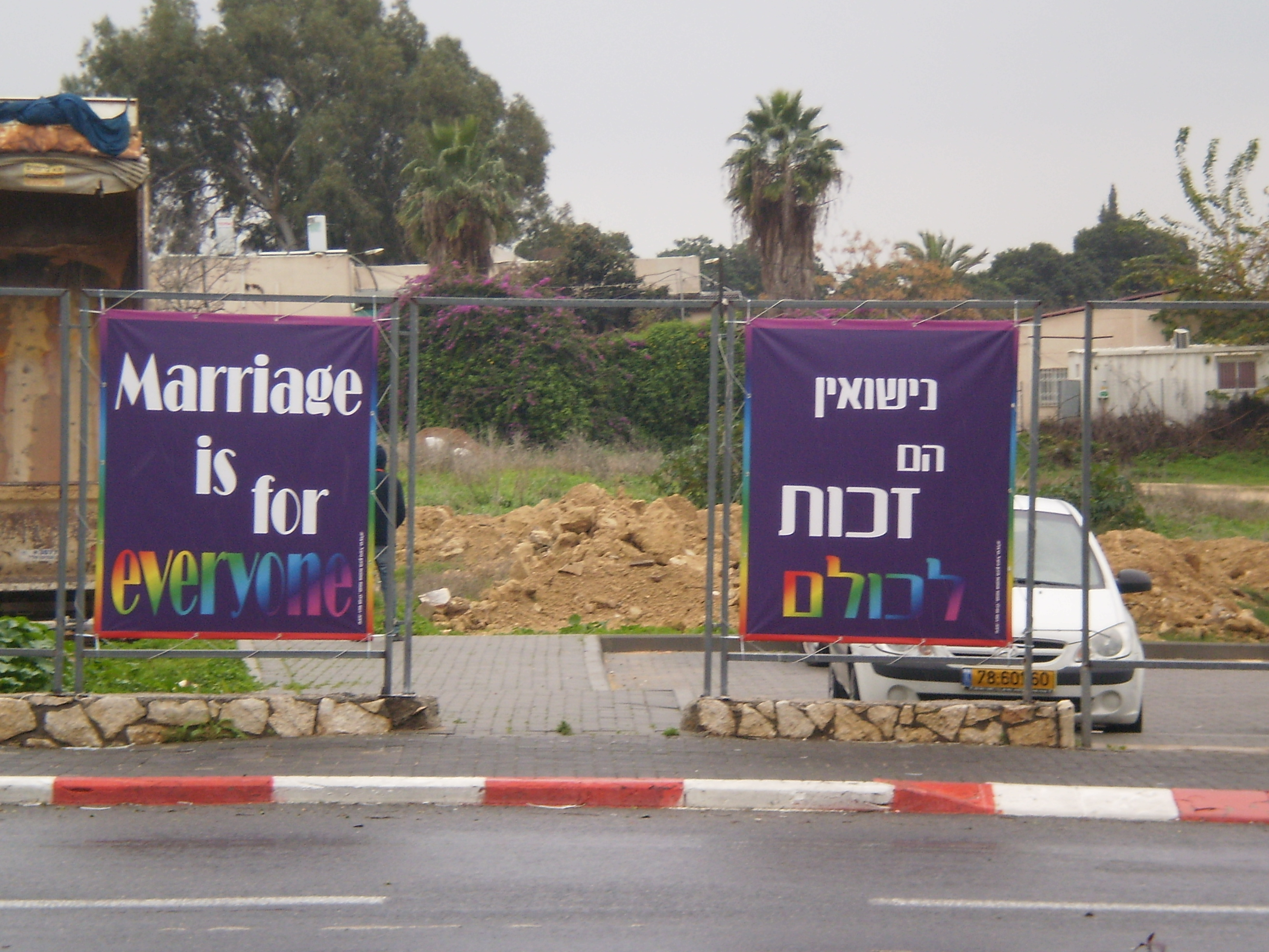 Herzliya hugs the gay community